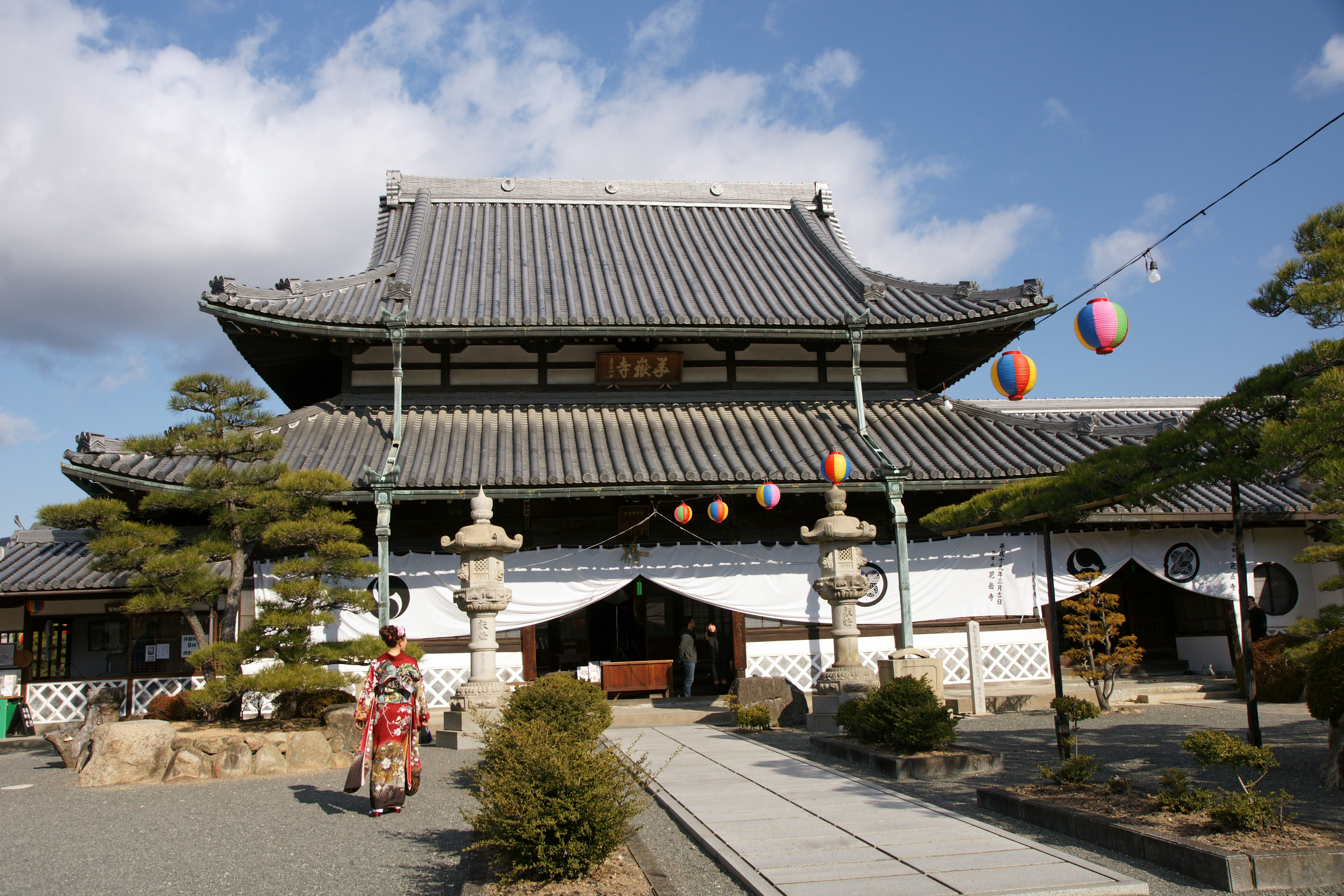 Kagakuji in Akō, Hyogo prefecture, Japan